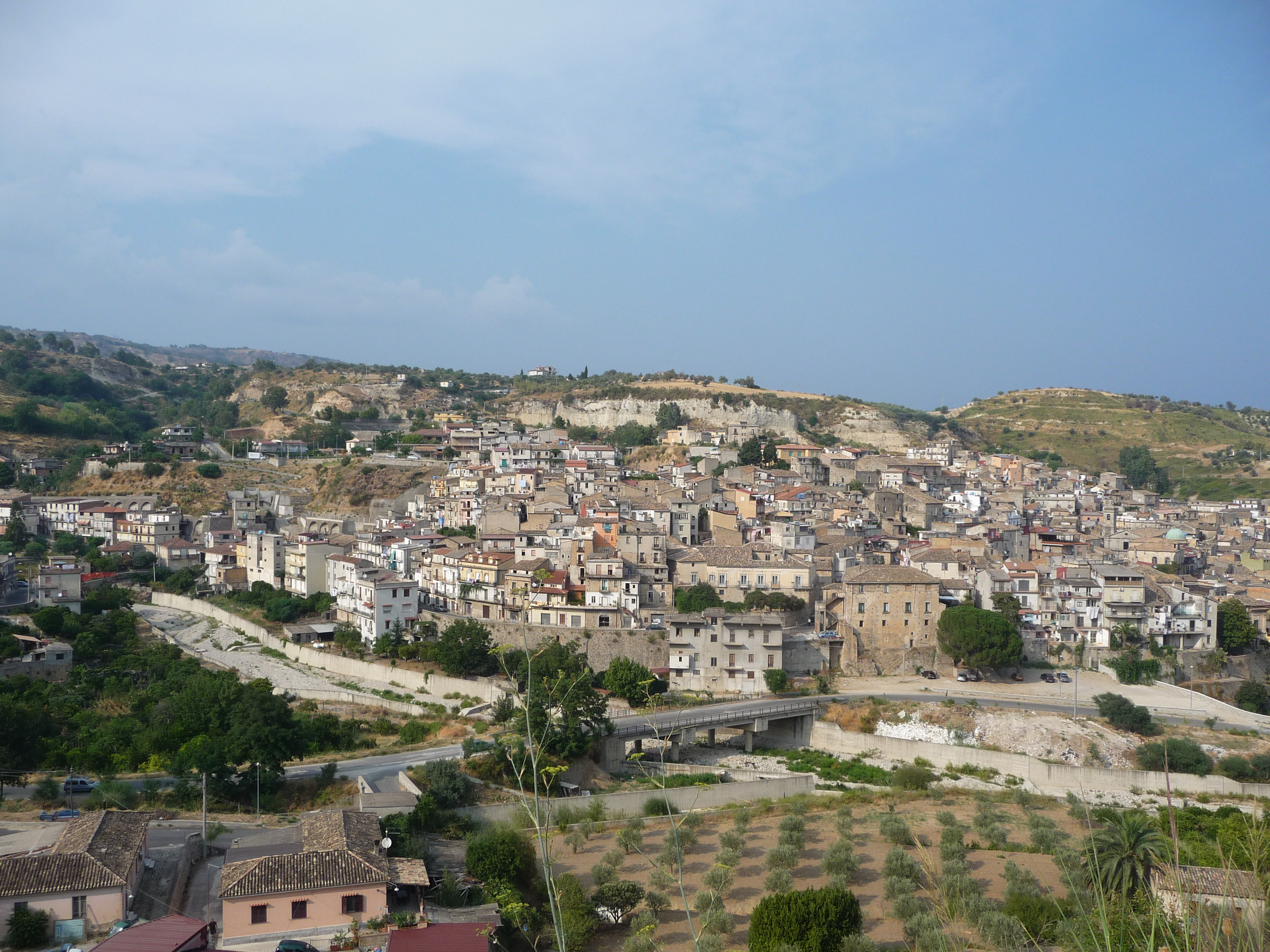 Landmark of Guardavalle